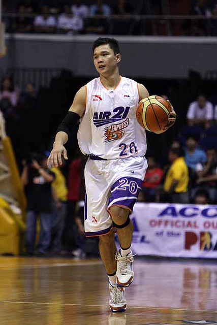 Gary David in 2008